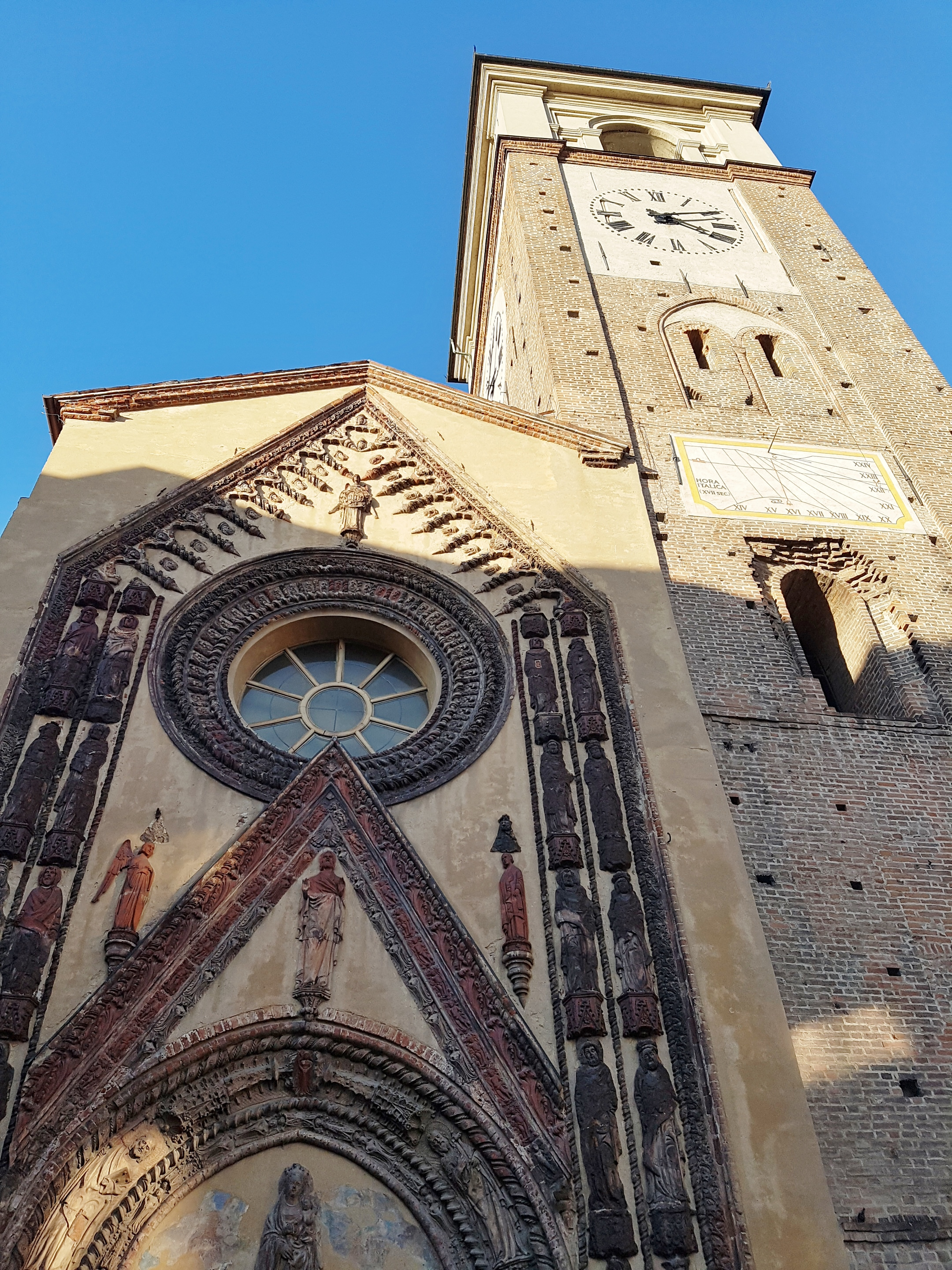 Collegiate Church of Assumption of St Mary (XV century), Chivasso, Northern Italy